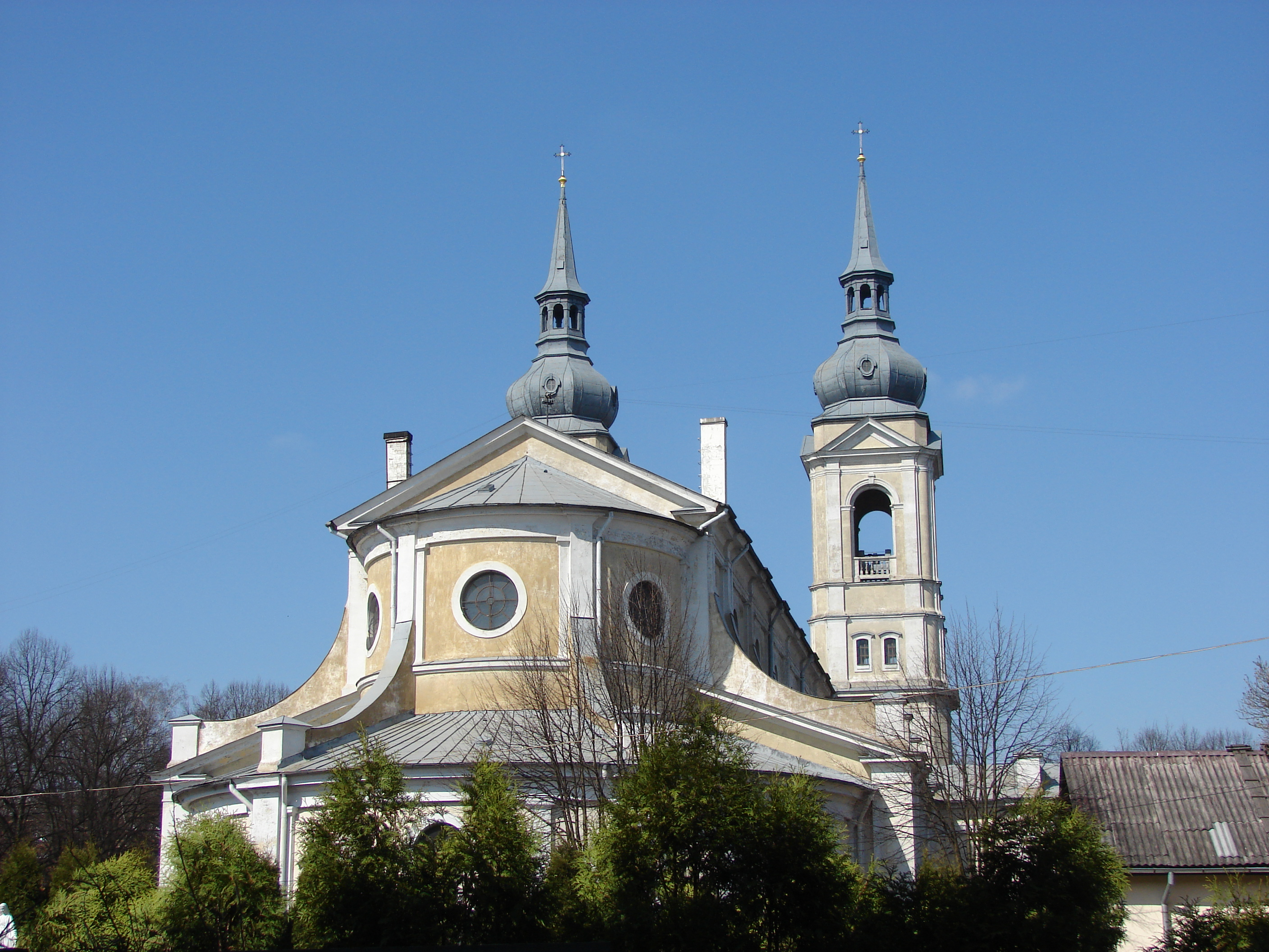 Saint Albert Roman Catholic Church in RigaLatviešu: Rīgas Svētā Alberta Romas katoļu baznīca